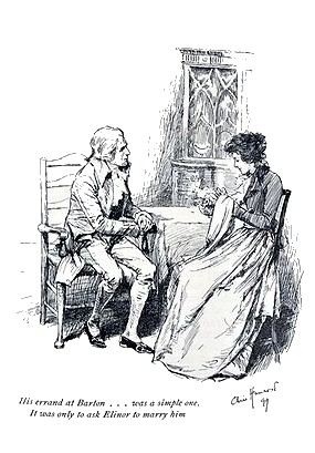 "His errand at Barton...was a simple one. It was only to ask Elinor to marry him" - Edward asks Elinor to marry him. Austen, Jane. Sense and Sensibility. London: George Allen, 1899.